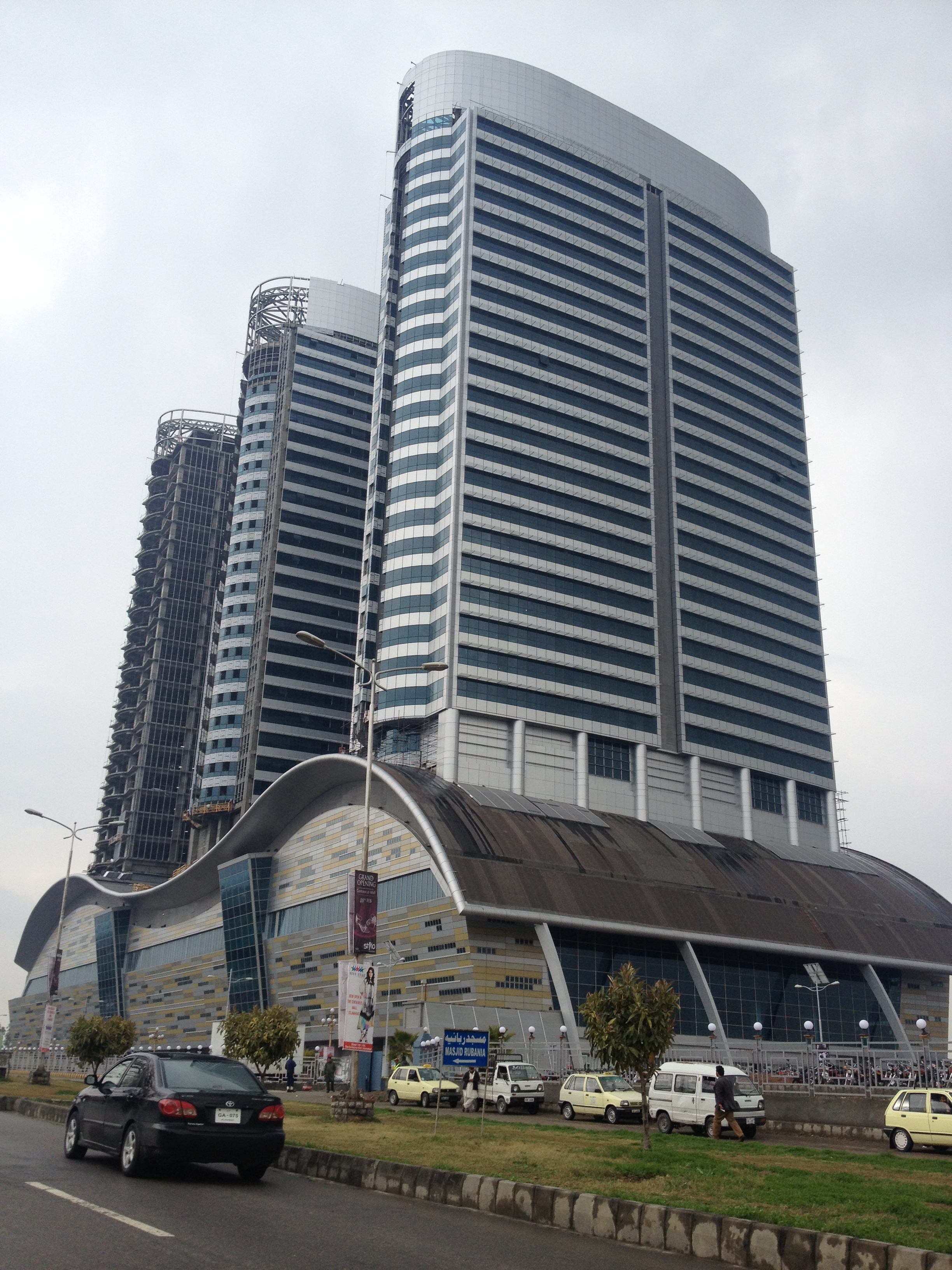 Photo of The Centaurus in Islamabad, Pakistan.